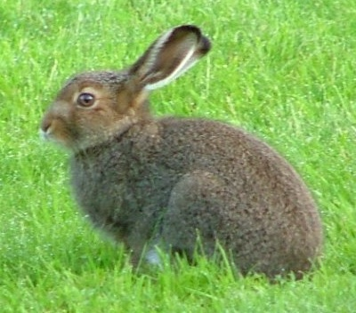 Picture of Lepus timidus on our lawn in Norway a early morning in June.